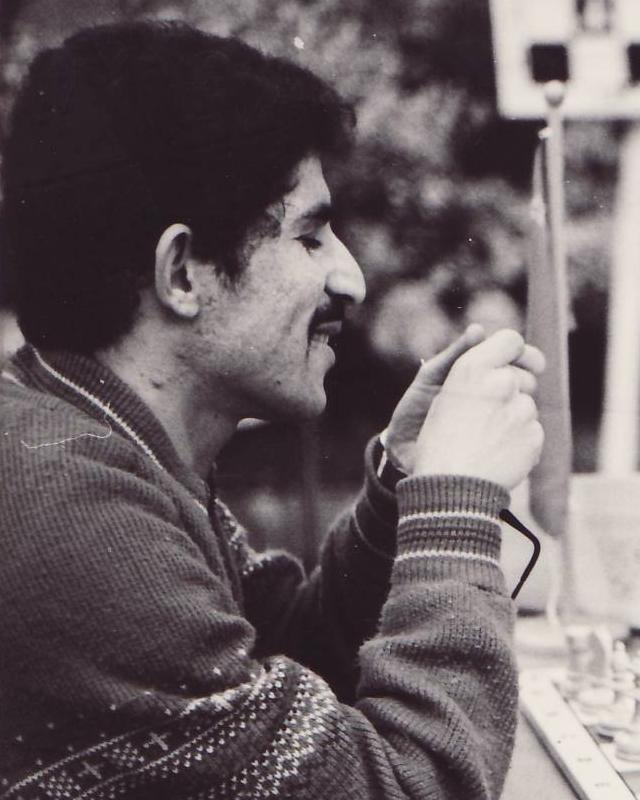 Mershad Sharif, Dortmunder Schachtage 1982, Photographer Gerhard Hund.